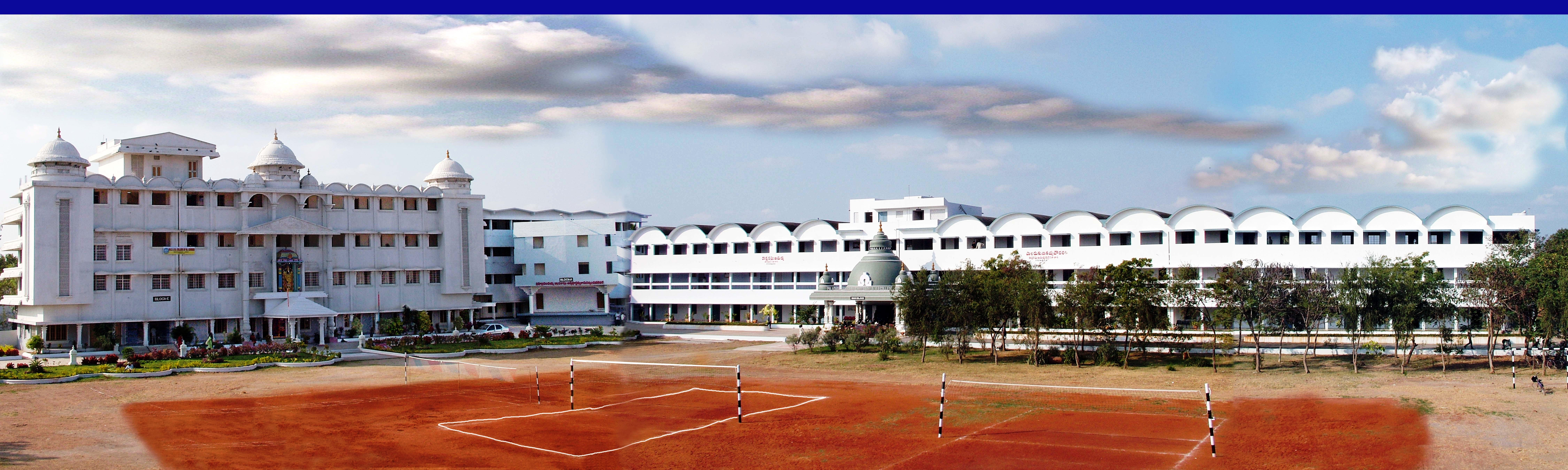 Palagadu Nagaiah Chowdary & kottha Raghuramaiah College Campus in Narasaraopeta Town